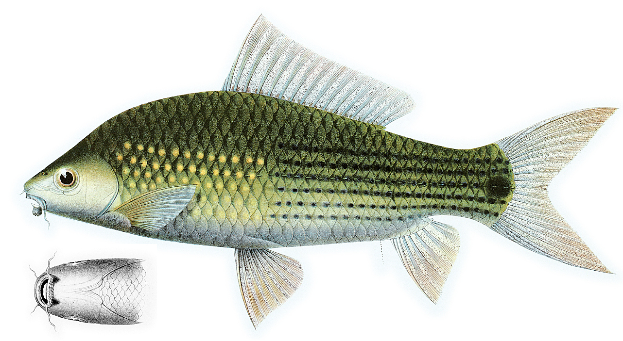 Osteochilus vittatus, bonylip barb, identified in original publication as Rohita (Rohita) Hasseltii